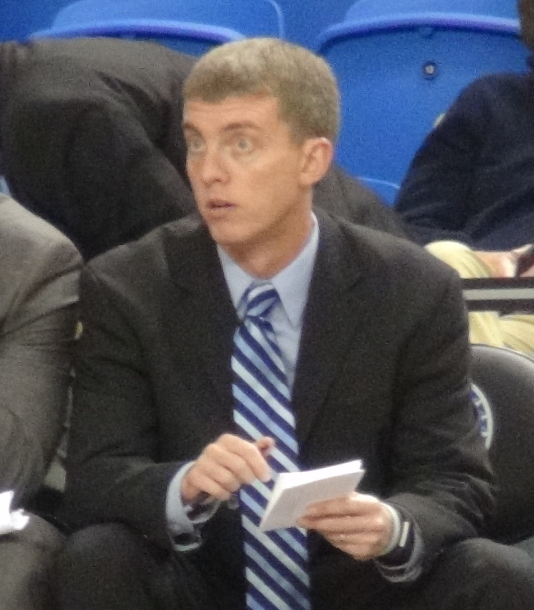 University of San Diego men's basketball assistant coach Sam Scholl during a game at San Jose State on November 12, 2017 at the Event Center in San Jose, California.